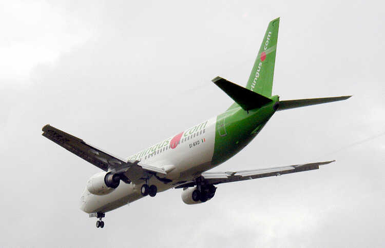 Aer Lingus Boeing 737-400 EI-BXD on the approach to London (Heathrow) Airport (UK)